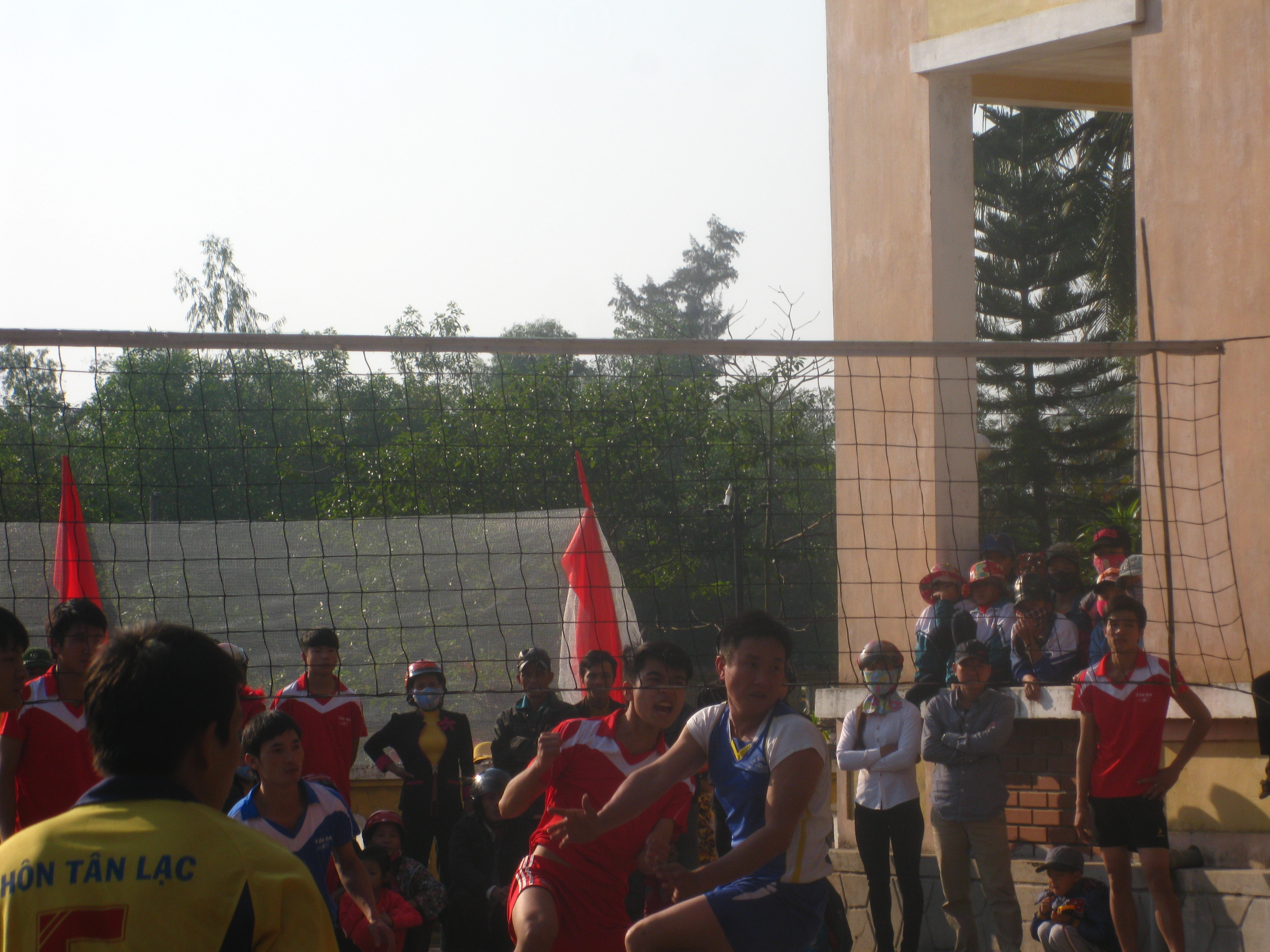 very good